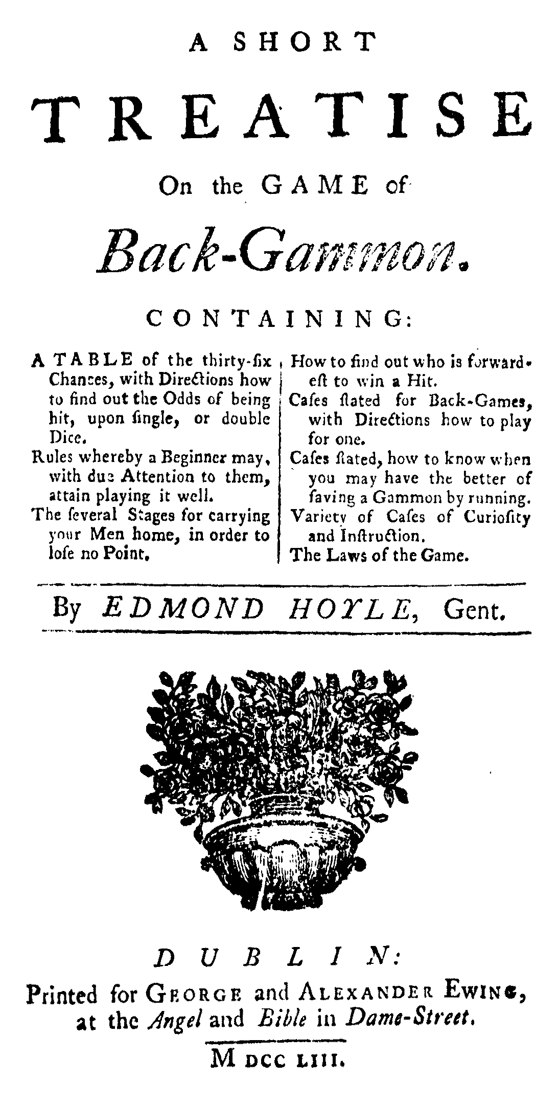 The title page of Edmond Hoyle's book A Short Treatise on the Game of Back-Gammon